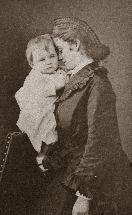 Sophie Charlotte, Duchess of Alençon (nee Princess in Bavaria) with her son Emmanuel, Duke of Vendôme